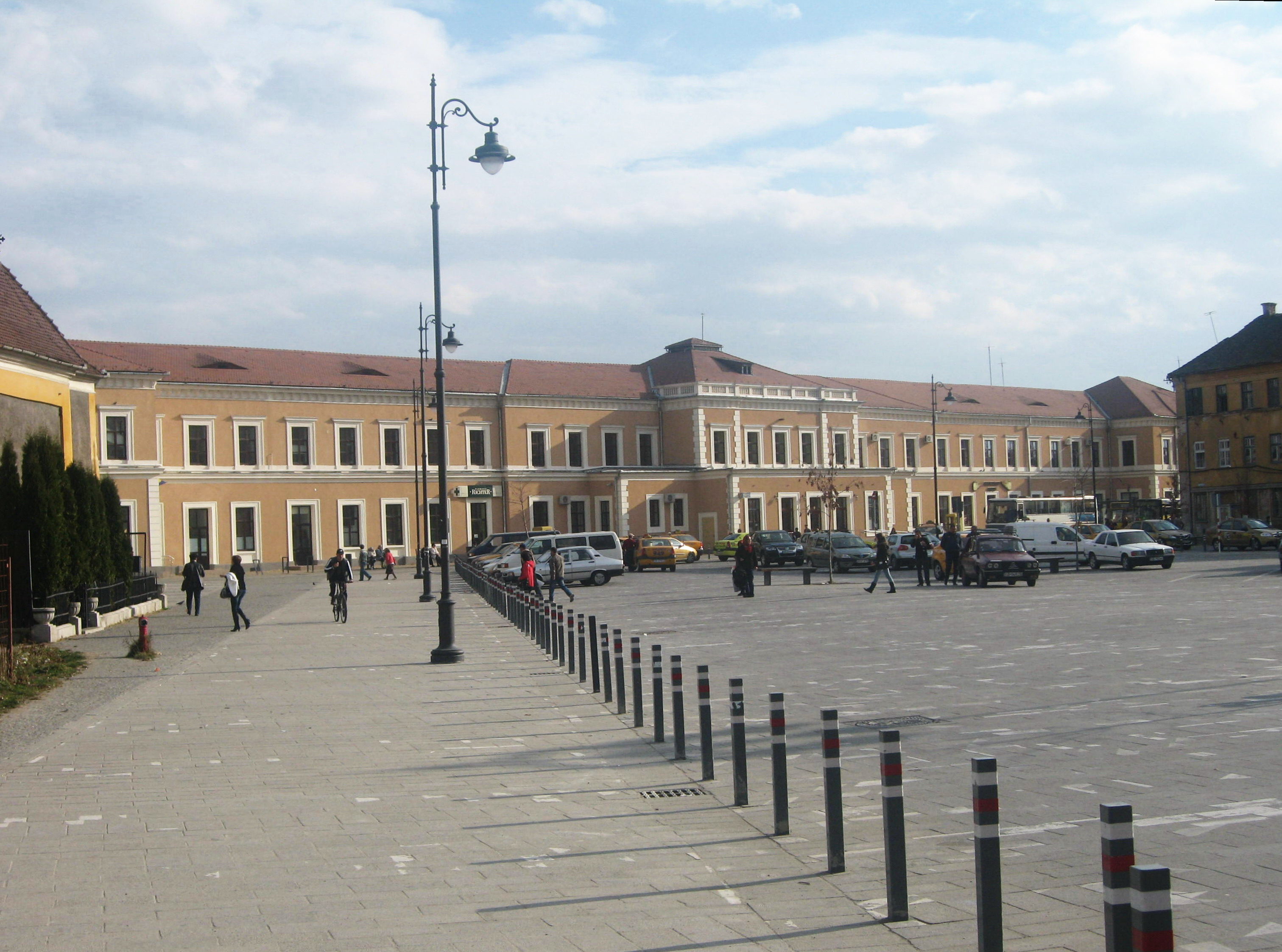 Railway Station of Sibiu, Romania